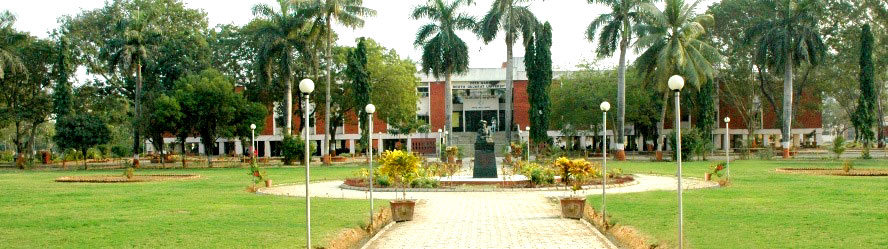 VNSGU FRON BUILDING